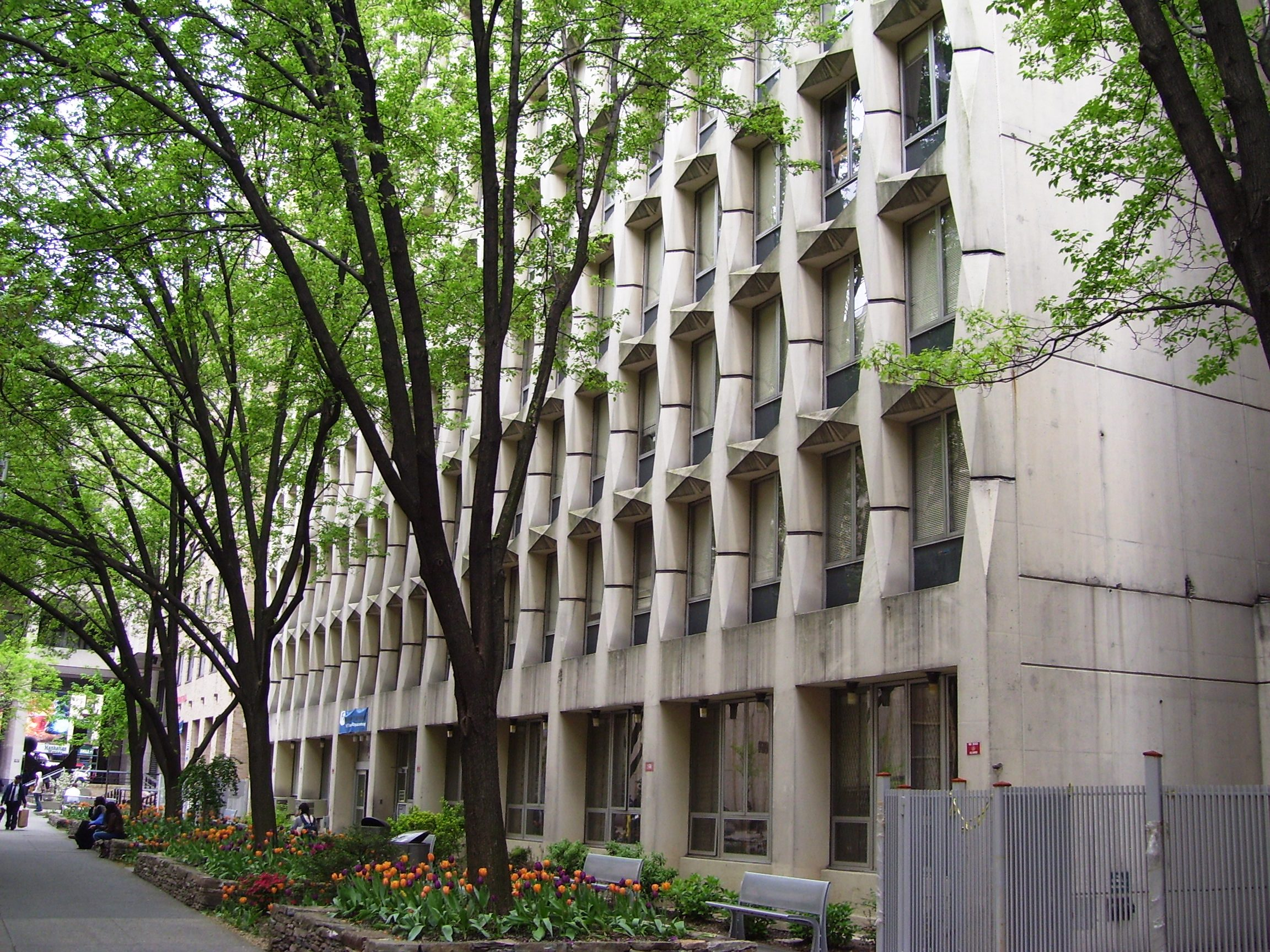 The Nagler Hall dormitory of the Fashion Institute of Technology, at 220 West 27th Street between Seventh and Eighth Avenues in the Chelsea neighborhood of Manhattan, New York City, was built in 1962 and designed by DeYoung & Moscowitz. (Source: AIA Guide to NYC (4th ed.)